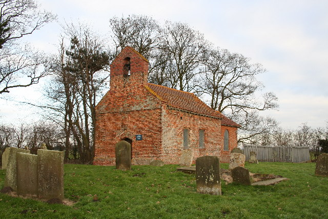 St.George's church, Goltho, Lincs. All alone, surrounded by undulations in the fields where the medieval village of Goltho once stood, St.George's is a neat brick church of c1640 with Georgian furnishings. Sadly neglected, it was saved by the Redundant Churches Fund in 1998 and is now well kept.